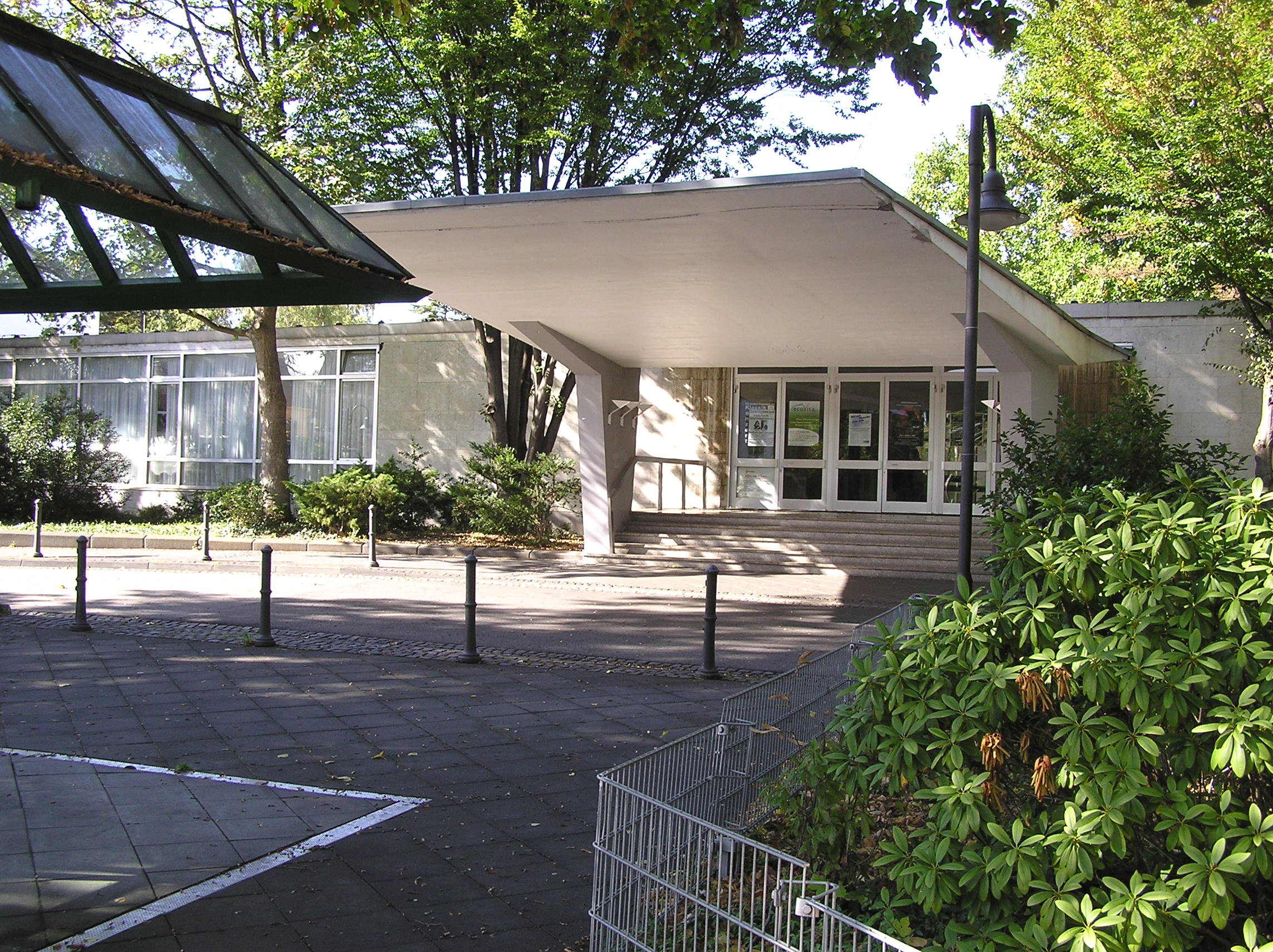 Main entrance of the municipal hall in Bonn-Bad Godesberg, Germany.